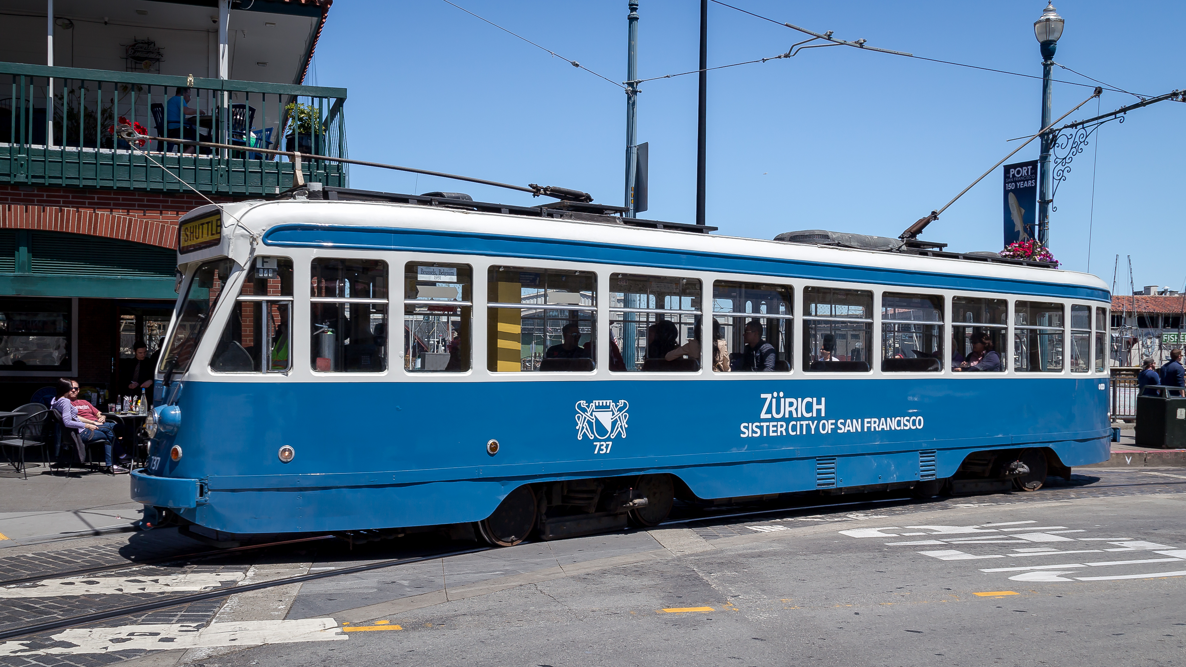 Ex-Brussels streetcar (tram) 7037 in San Francisco, renumbered 737 and painted in a historic livery of Zürich, Switzerland, which became one of San Francisco's sister cities in 2003. (This type of streetcar never operated in Zürich.) Car 737 was built in 1952 by La Brugeoise, of Belgium, for Brussels and was acquired by San Francisco Muni in 2004, and was repainted and renumbered in 2005.